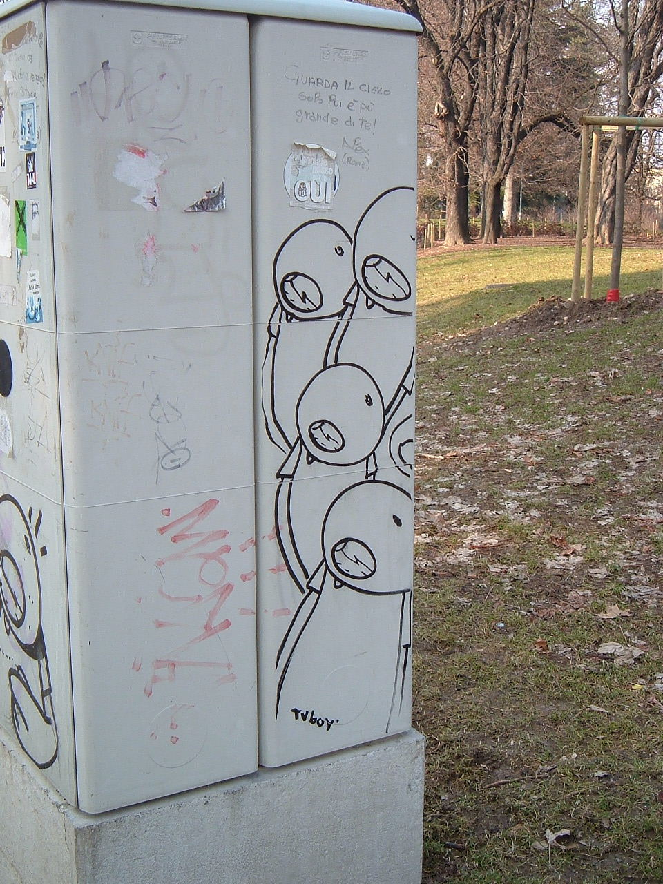 Tvboy group sketched by marker on energy box in Milan.